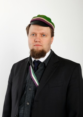 The Head of Tartu Credit Union (Estonia), Andro Roos